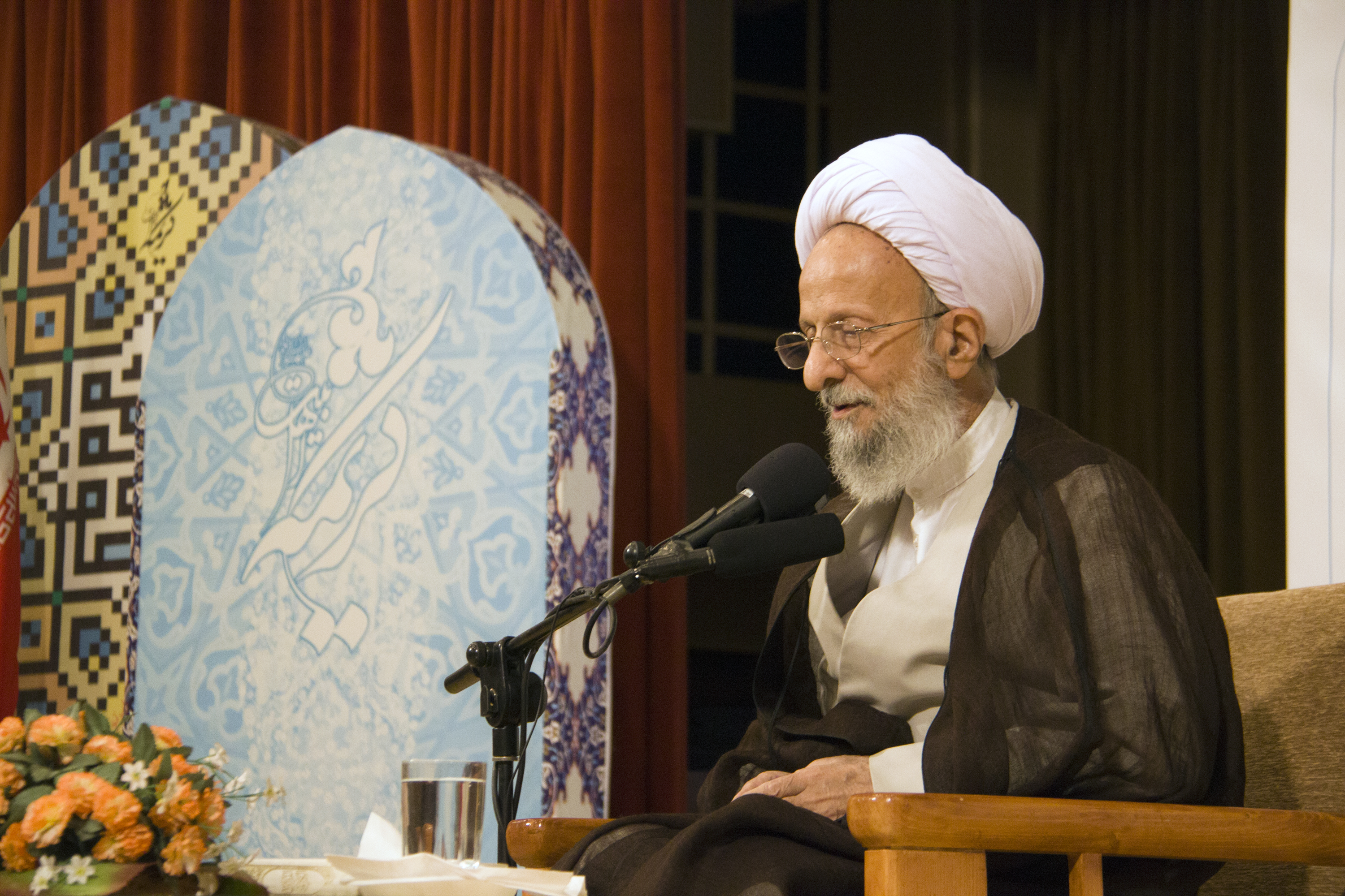 Taqī Miṣbāḥ commonly known as Muḥammad–Taqī Miṣbāḥ Yazdī is an Iranian Twelver Shi'i cleric and principlist political activist who unofficially leads Front of Islamic Revolution Stability. He was a member of the Assembly of Experts, the body responsible for choosing the Supreme Leader, where he heads a minority faction. He has been called 'the most conservative' and the most 'powerful' clerical oligarch in Iran's leading center of religious learning, the city of Qom.